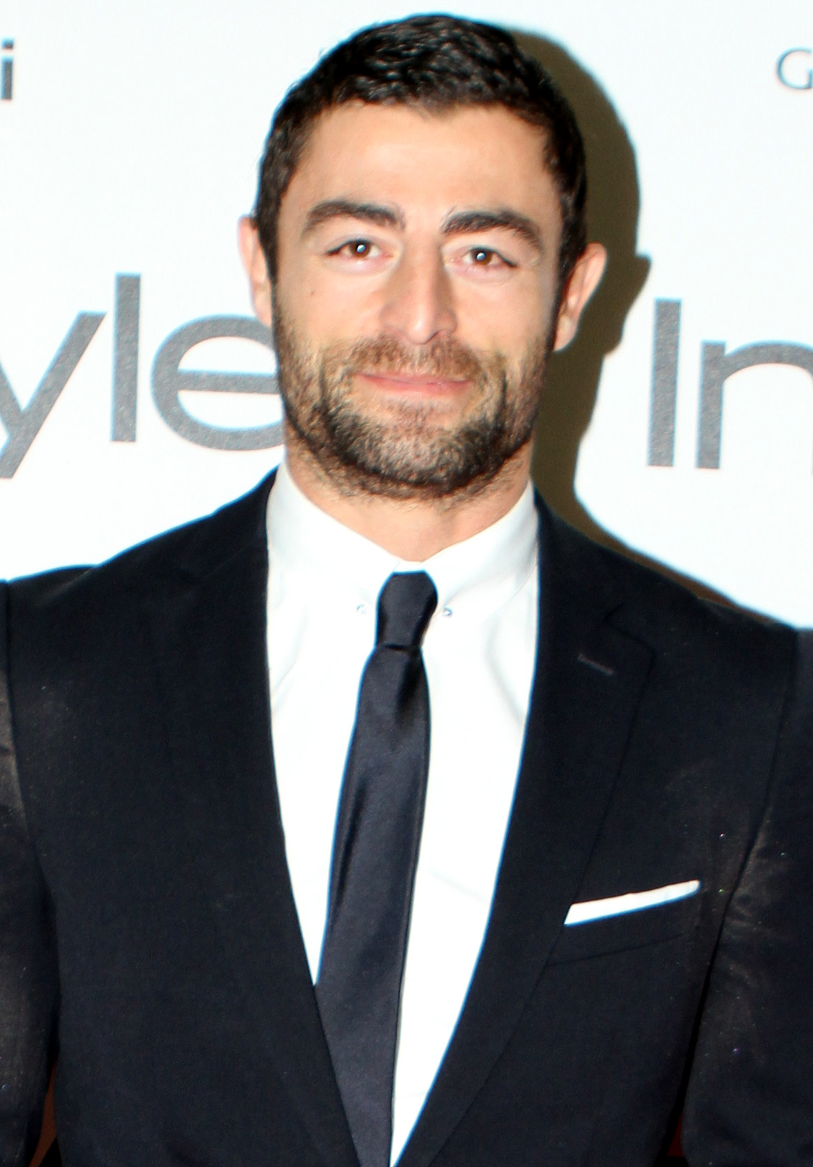 Anthony Minichiello at the InStyle Awards 2015